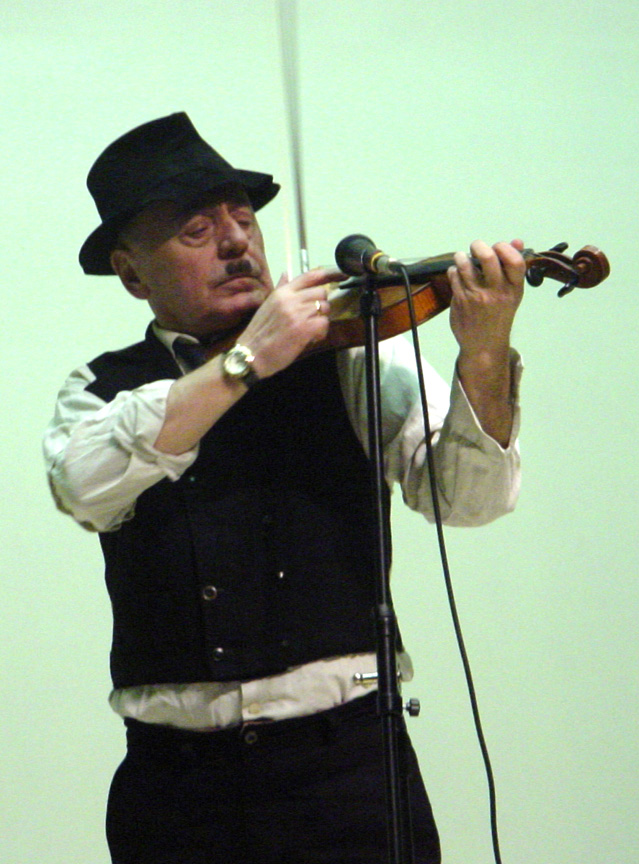 Todor Kolev in Boston, Massachusetts